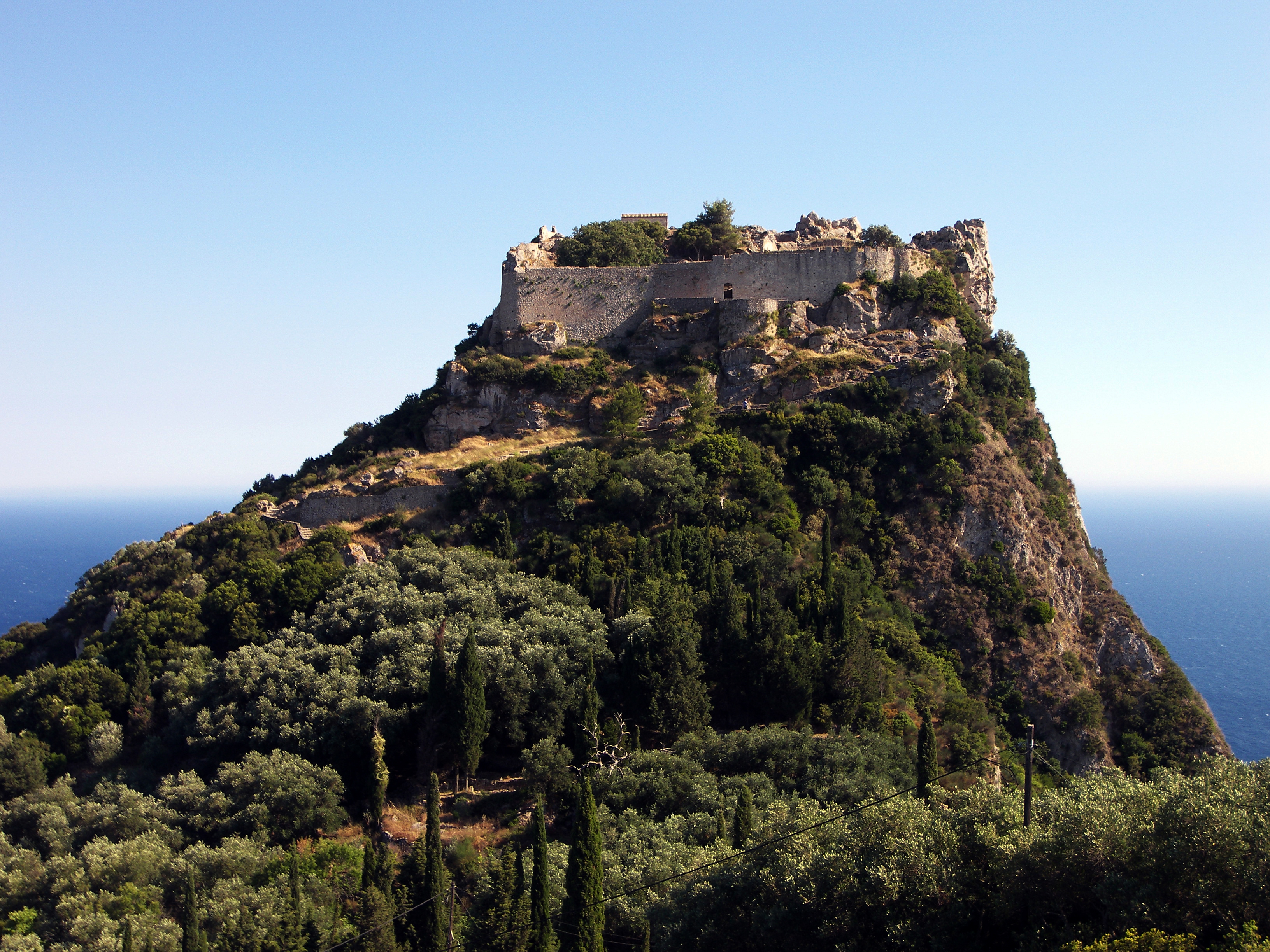 Please see filename